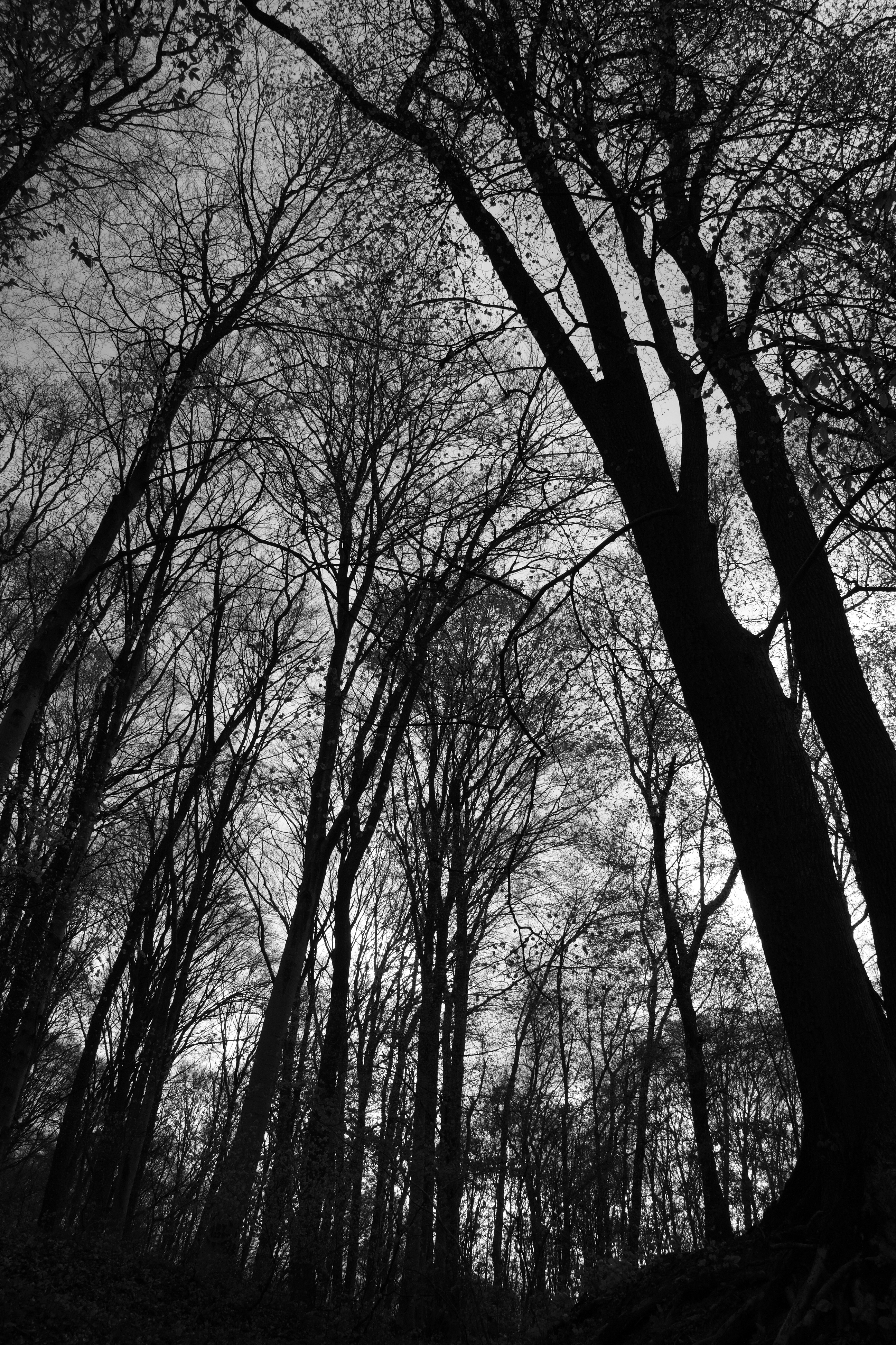 Breite Ancient Oak Tree Reserve, Sighisoara, Romania